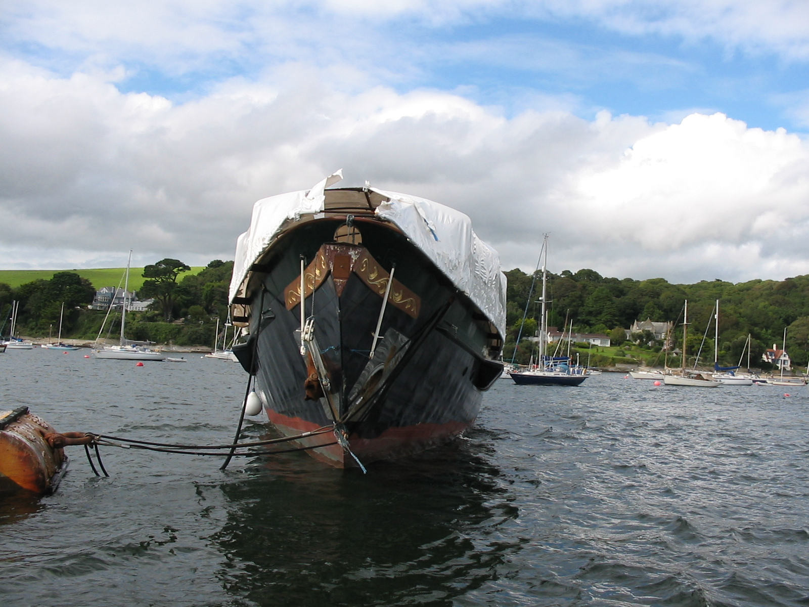 The Sail Training Vessel Malcolm Miller, on a buoy in Falmouth, UK, awaiting restoration and refitting.